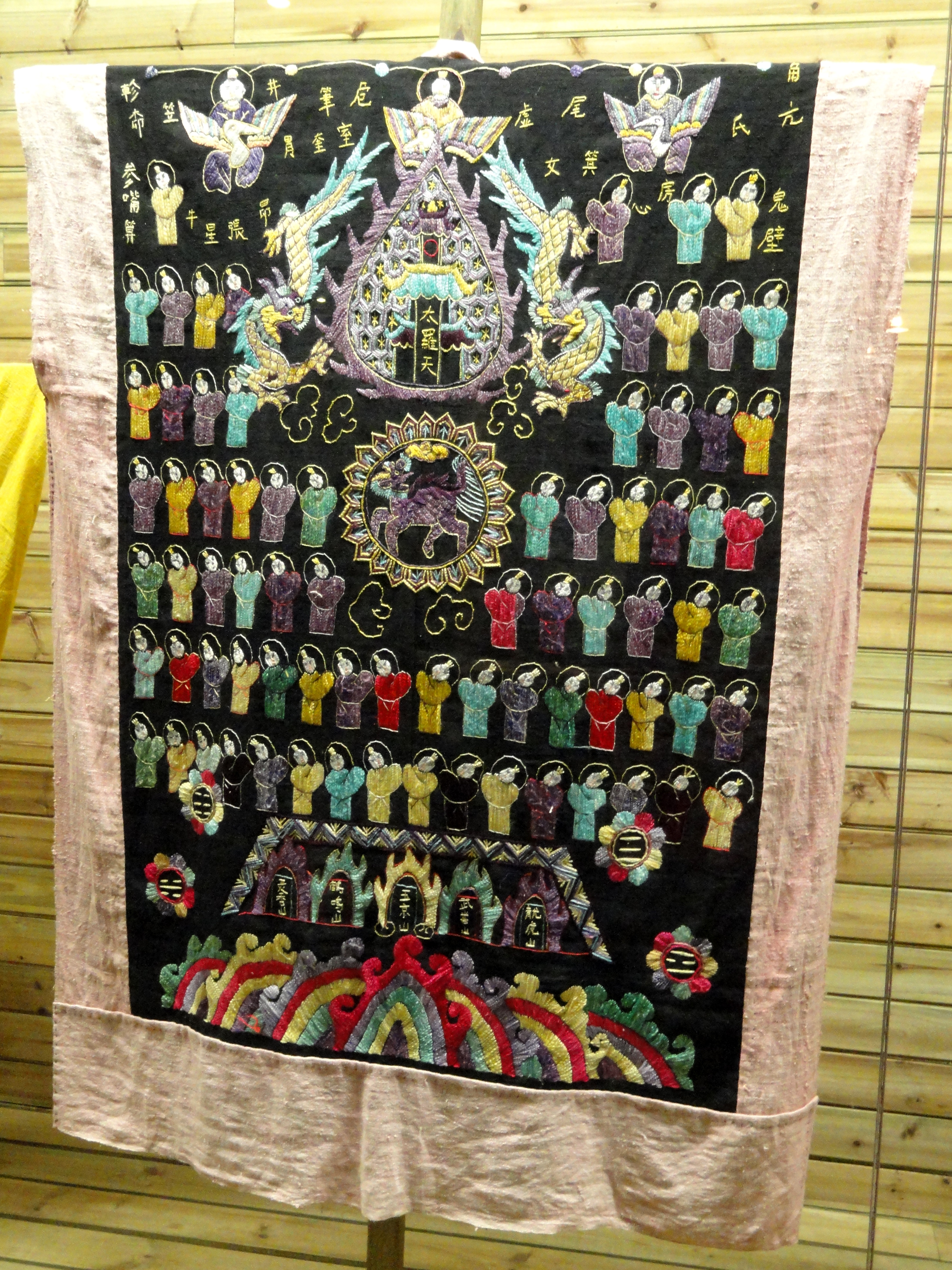 Yao taoist priest costume. Clothing exhibited in the Yunnan Nationalities Museum, Kunming, Yunnan, China.